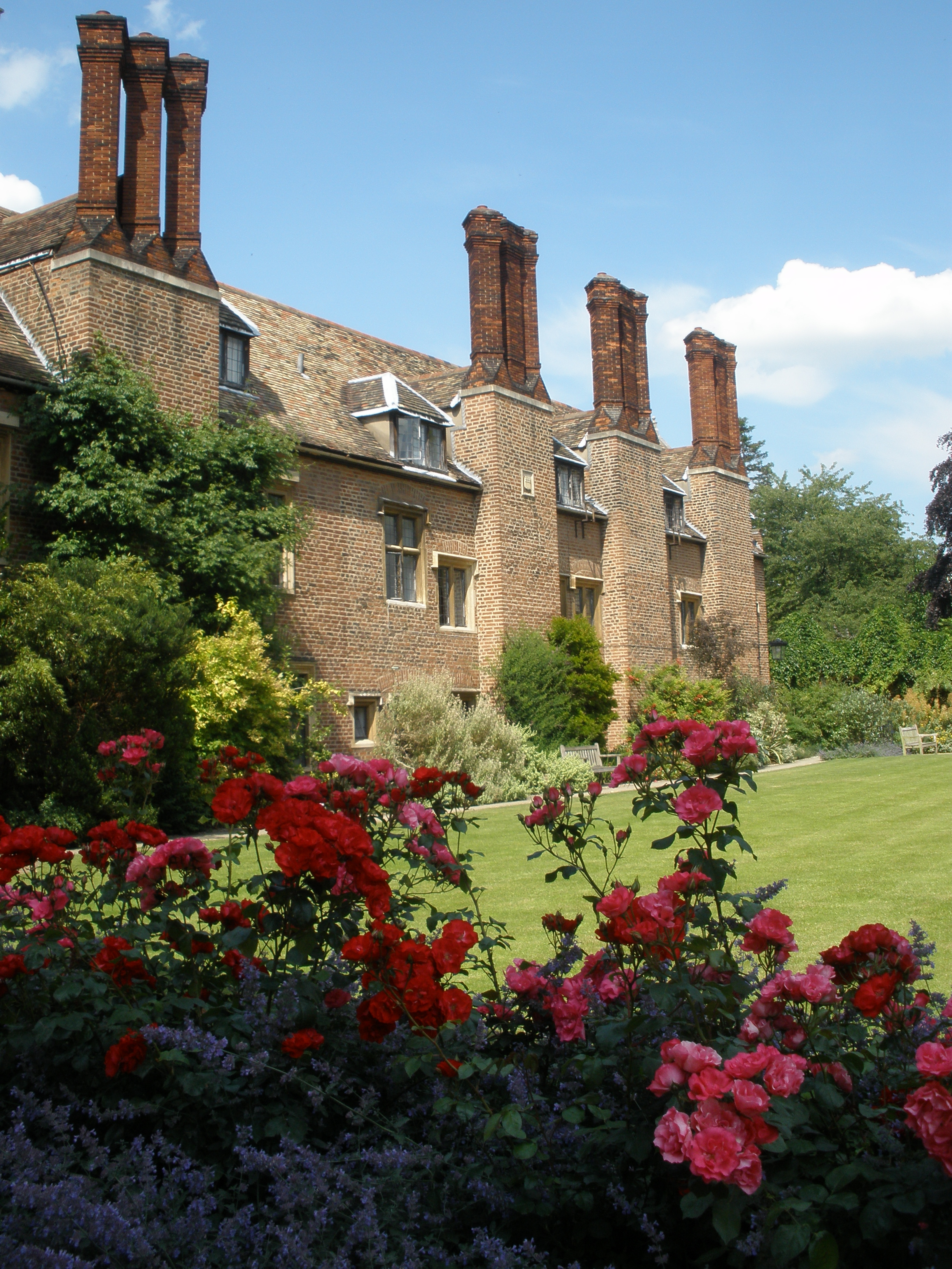 The gardens of Pembroke College in Library Court